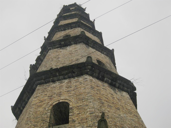 手机自拍，时间为2011年